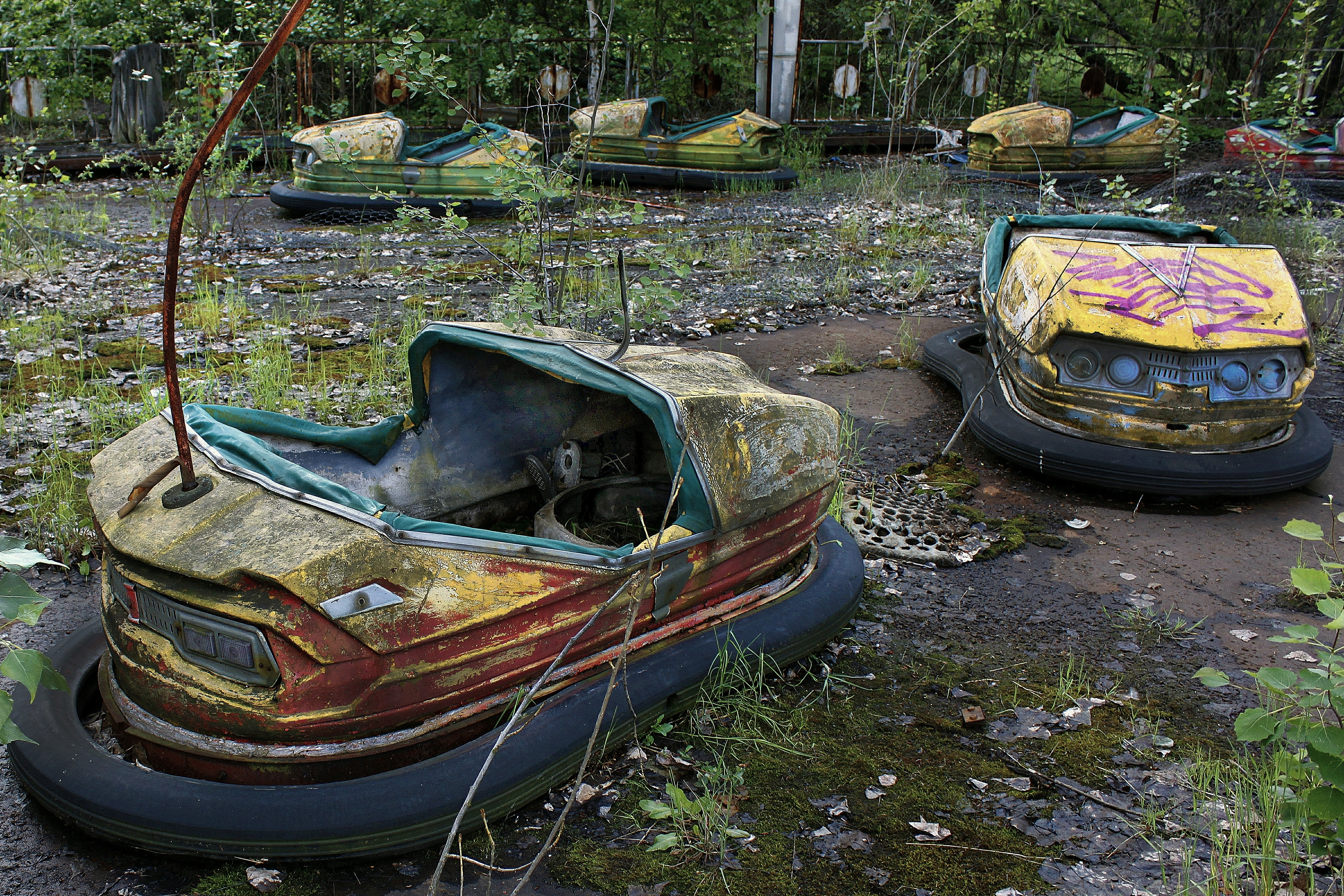 Few Karts in the amusement park in Pripyat - Chernobyl(Ukraine)The Park was abandoned 5 days before the Grand Opening planned for 1st of May Celebration and all the City of Pripyat Evacuated.